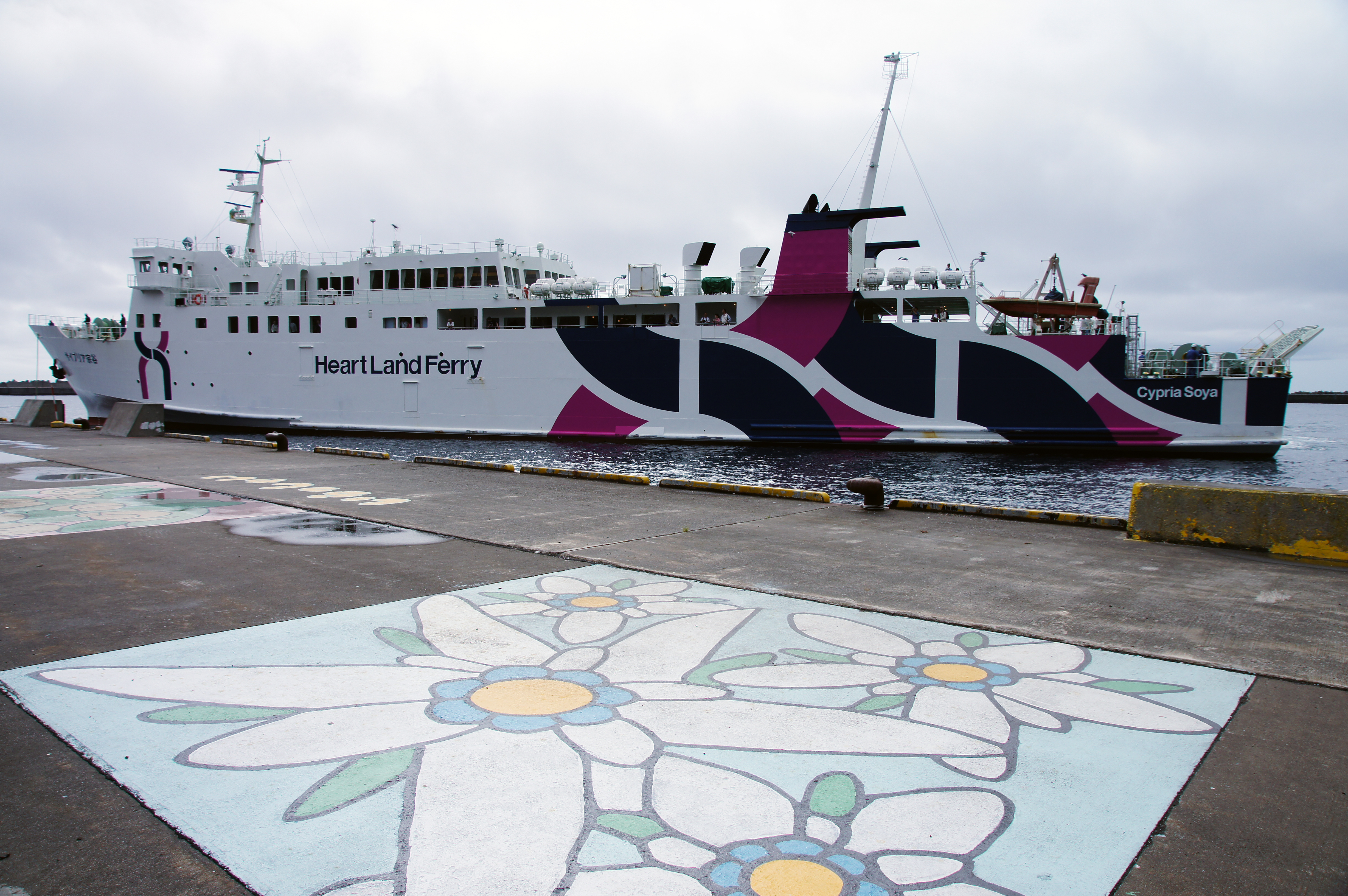 Kafuka Port in Rebun Island, Hokkaido, Japan.